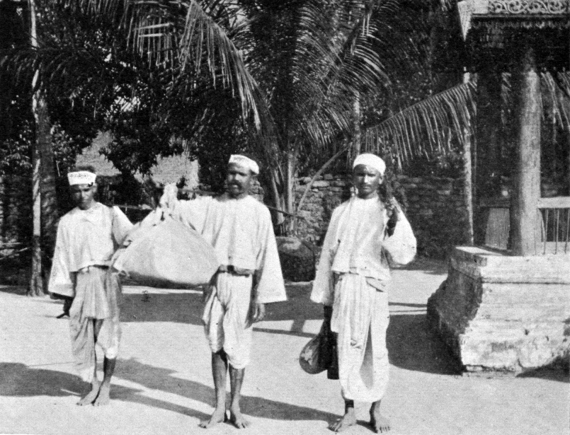 Manipuri astrologers and brahmins in Burma